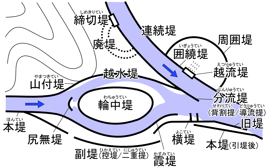 Bank types on a model map